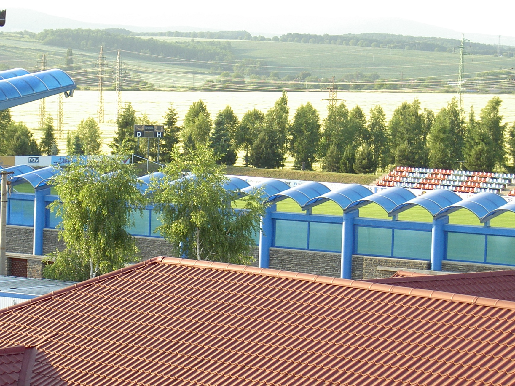 FC ViOn Stadium